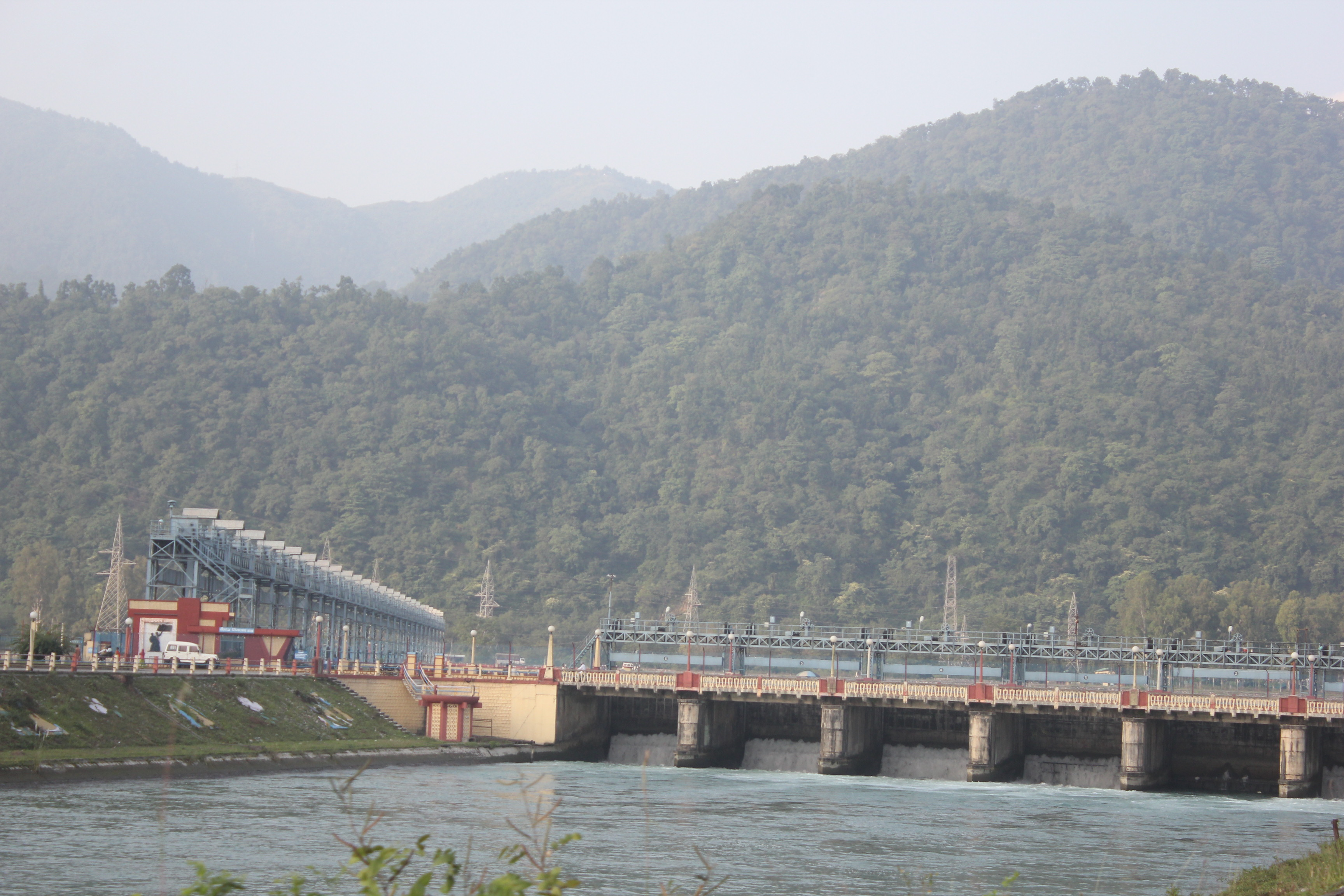 Barrage of Dakpathar, Uttarakhand. Dakpathar barrage is seen on left background and headworks for East Yamuna Canal are seen on right foreground.